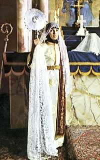 Clothing of a deaconess serving in the Armenian Church in Constantinople (19th c.). She wears an orarion and fine silver-wrought veil, in her hand she holds a flabellum.